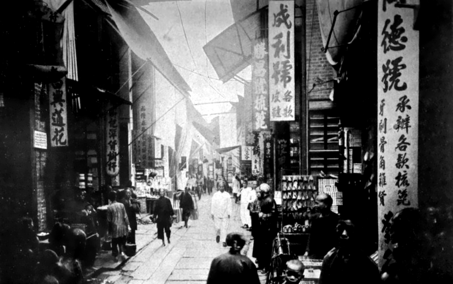 A street scene in the Chinese city of Canton / Guangzhou, circa 1919.